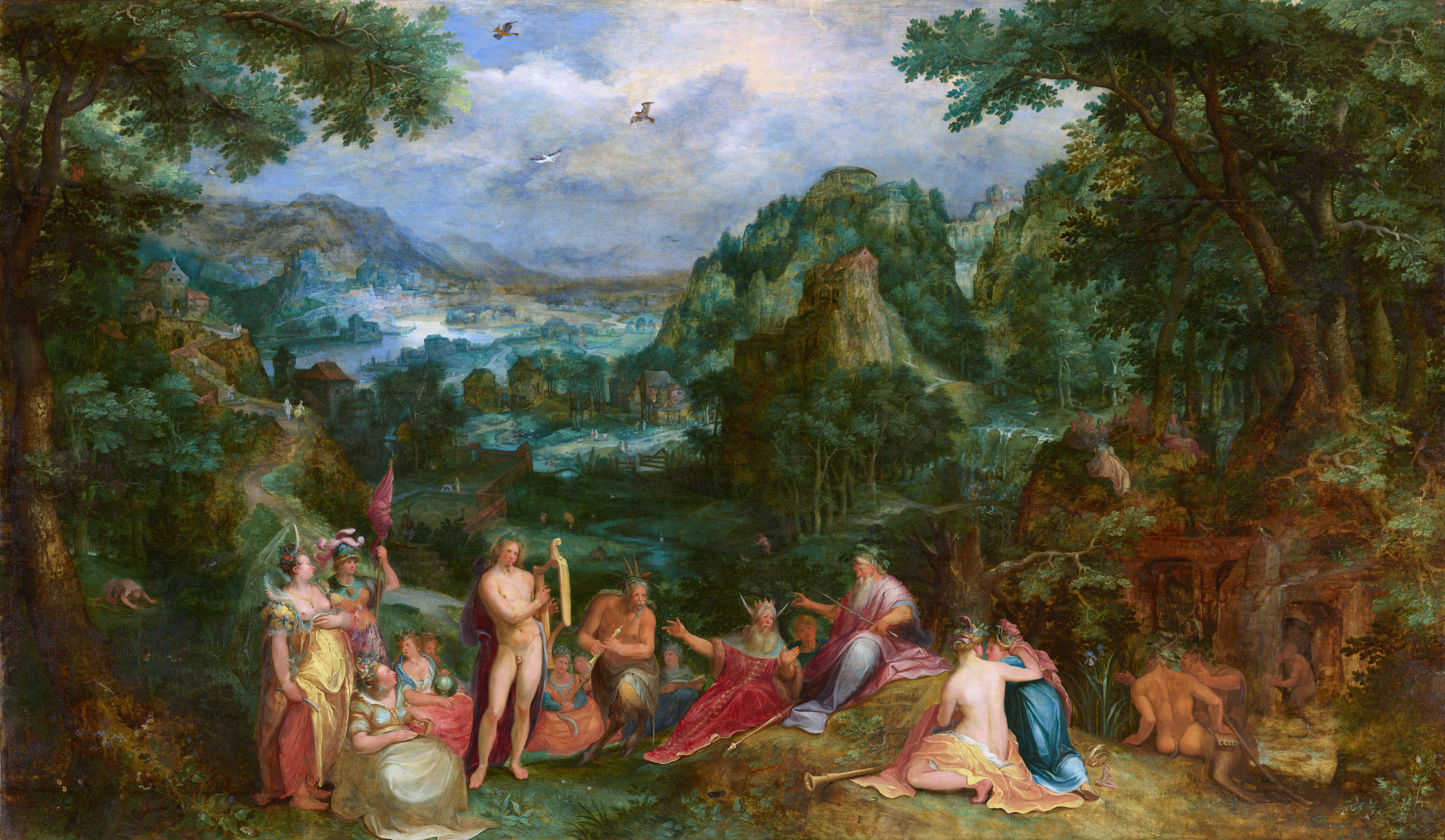 Landscape with the judgment of Midas oil on panel 120 x 204 cm signed b.r.: [monogram ?] 1588